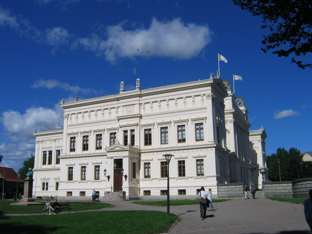 Lund University main building,Sweden